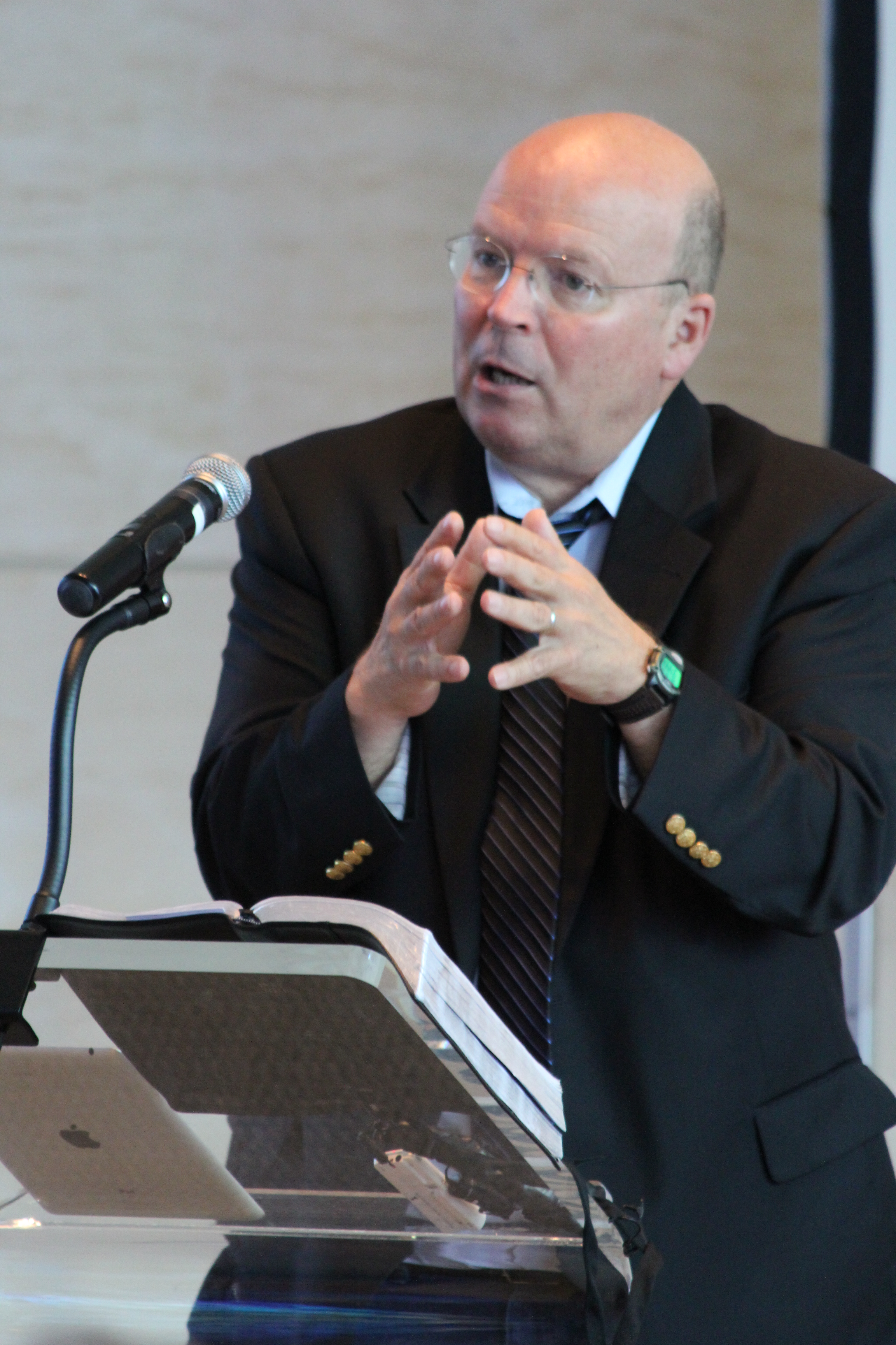 Scot McKnight teaching at ACU Summit in September of 2013 in Chapel on the Hill.